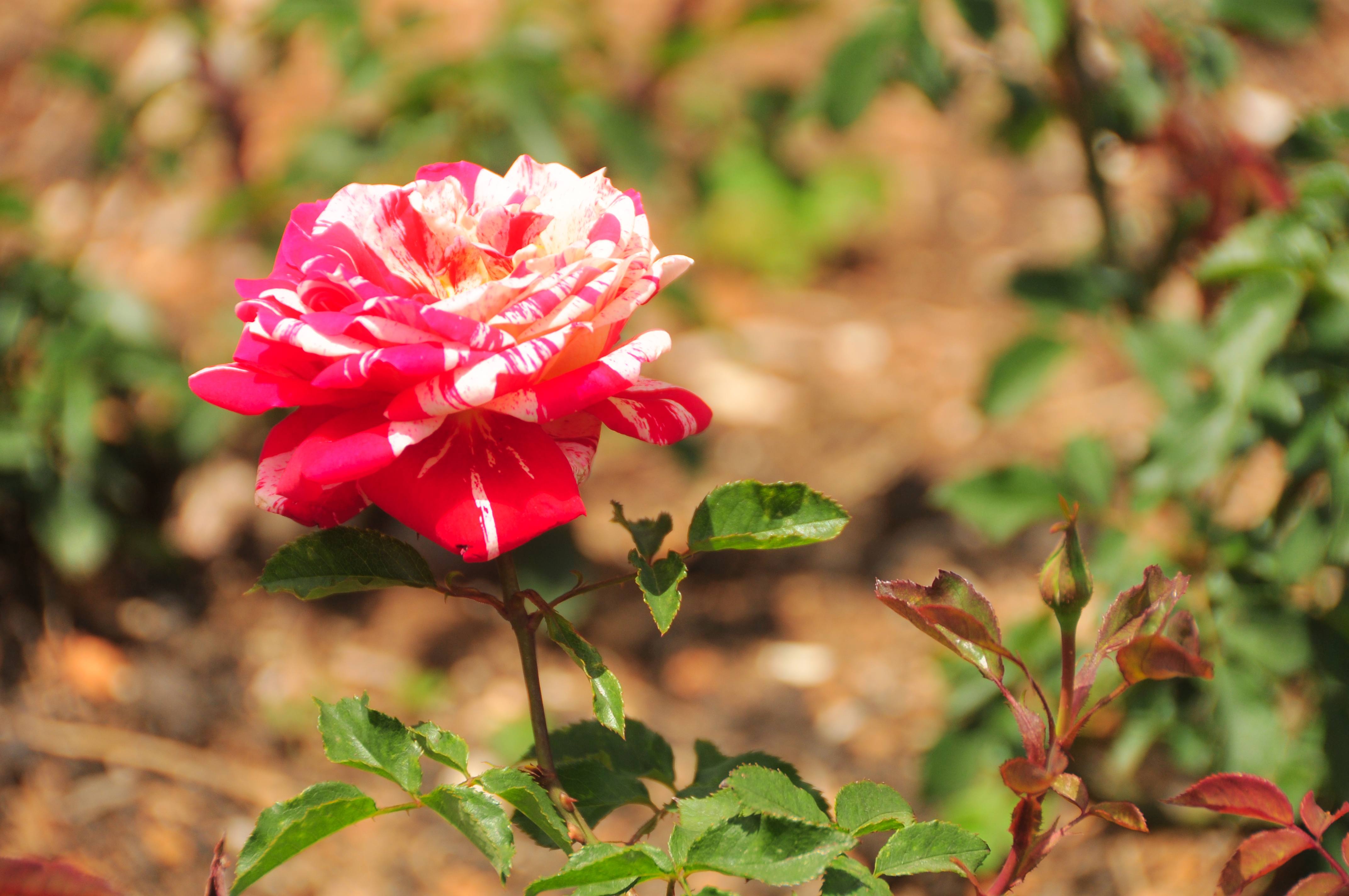 Bred by Samuel Darragh McGredy IV (1994). Introduced in New Zealand by McGredy Roses International (New Zealand) as 'Oranges 'n' Lemons'. Introduced in United States by Weeks Wholesale Rose Grower, Inc. in 1995 as 'Oranges 'n' Lemons'. Class: Floribunda / Cluster Flowered, Hybrid Tea / Large-Flowered, Shrub. Bloom: Orange and yellow, stripes. Mild fragrance. 40 petals. Average diameter 3.5". Full (26-40 petals), cluster-flowered, in small clusters bloom form. Blooms in flushes throughout the season. Habit: Tall, spreading, thornless (or almost). Medium, dark green foliage. Height of 30" to 10' (75 to 305 cm). Width of up to 2' (up to 60 cm).